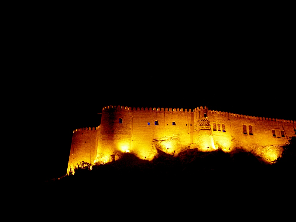 Photographer: Amir reza Pedram